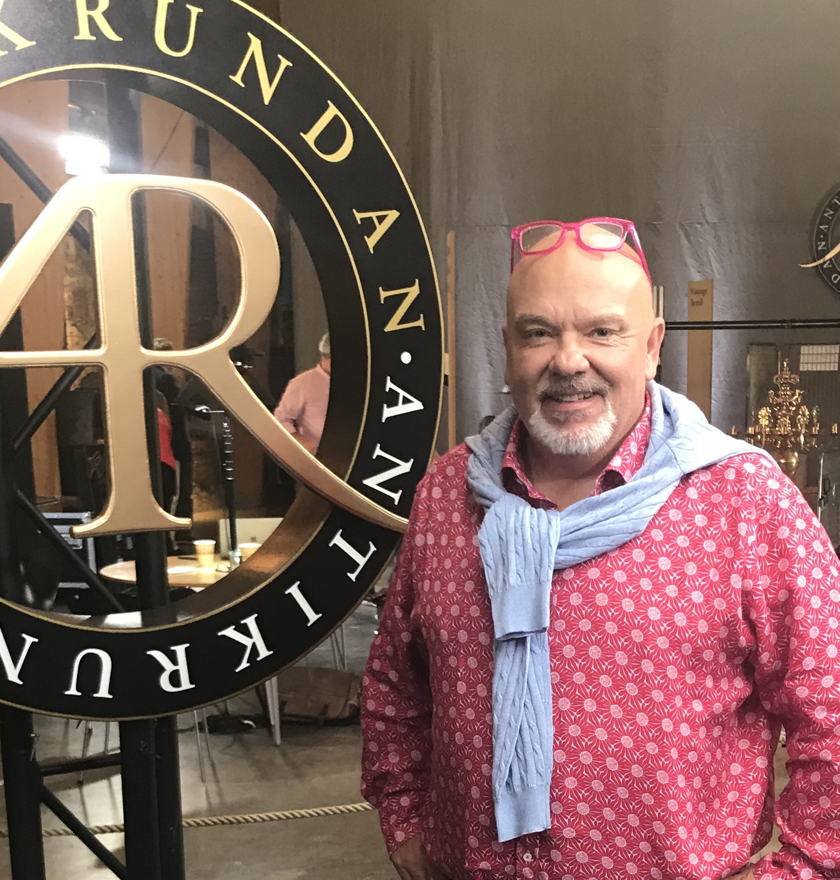 Joakim Bengtsson Swedish Antiques Roadshow 2018